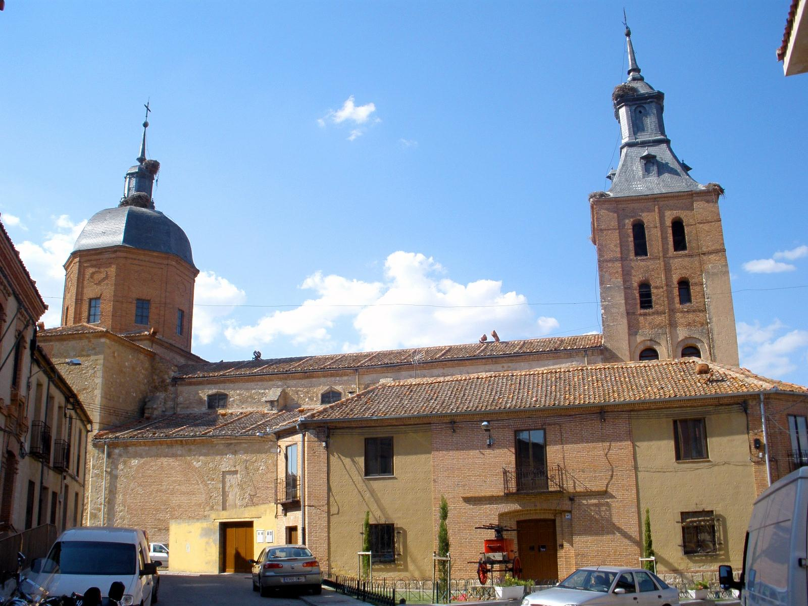 Iglesia de San Juan Bautista, Carbonero el Mayor (Segovia, Castilla y León, España)